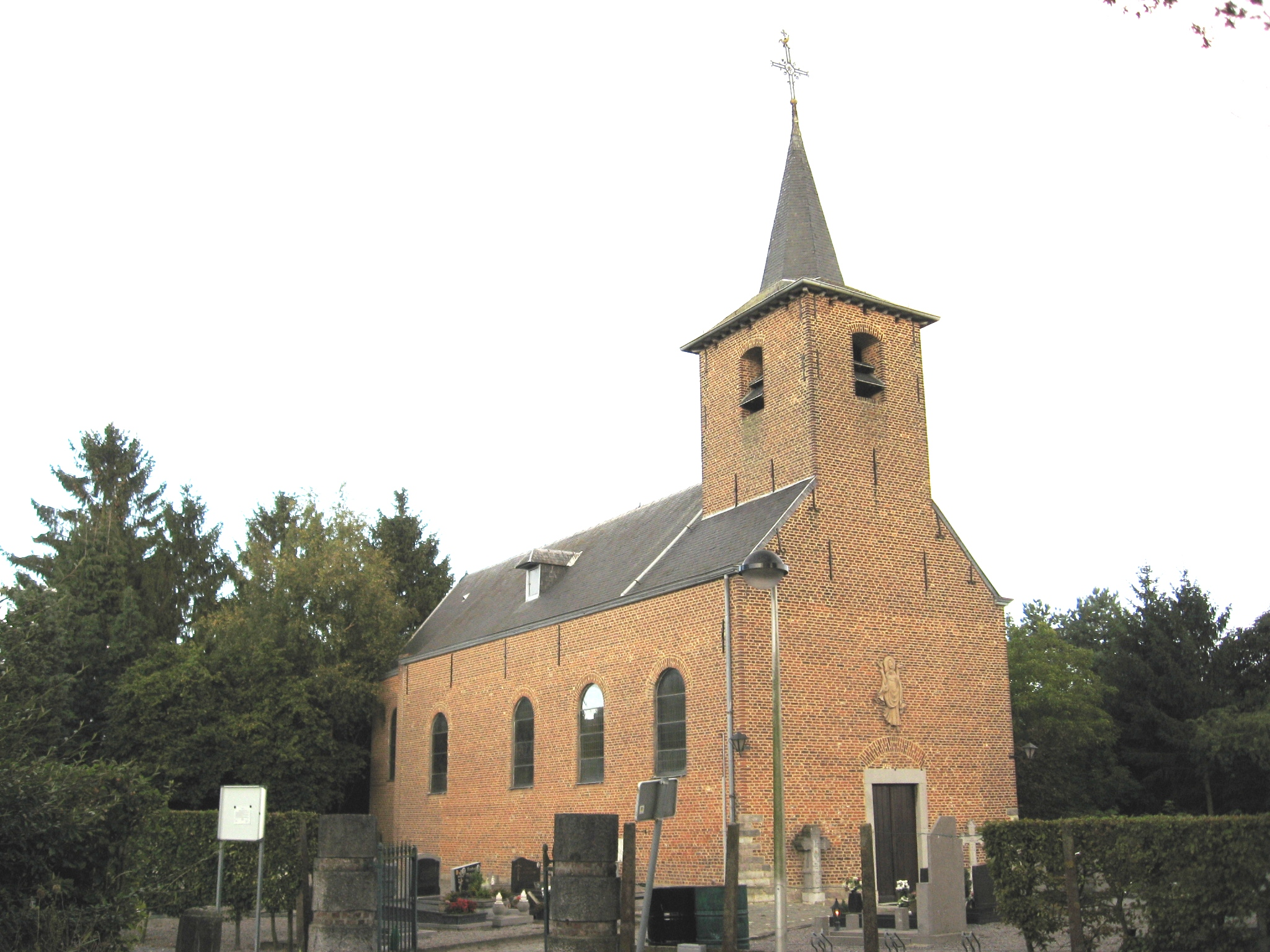 Church of the Assumption of Mary in Gorsem, Sint-Truiden, Limburg, Belgium